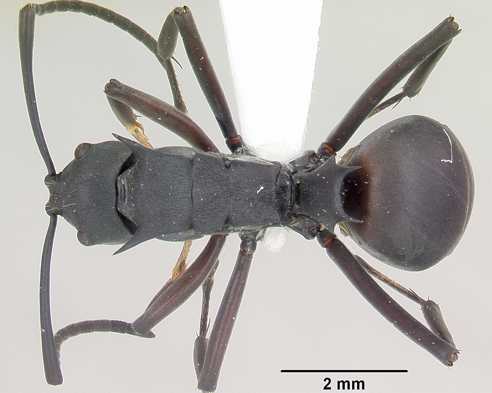 Dorsal view of ant Polyrhachis brendelli specimen casent0103173.